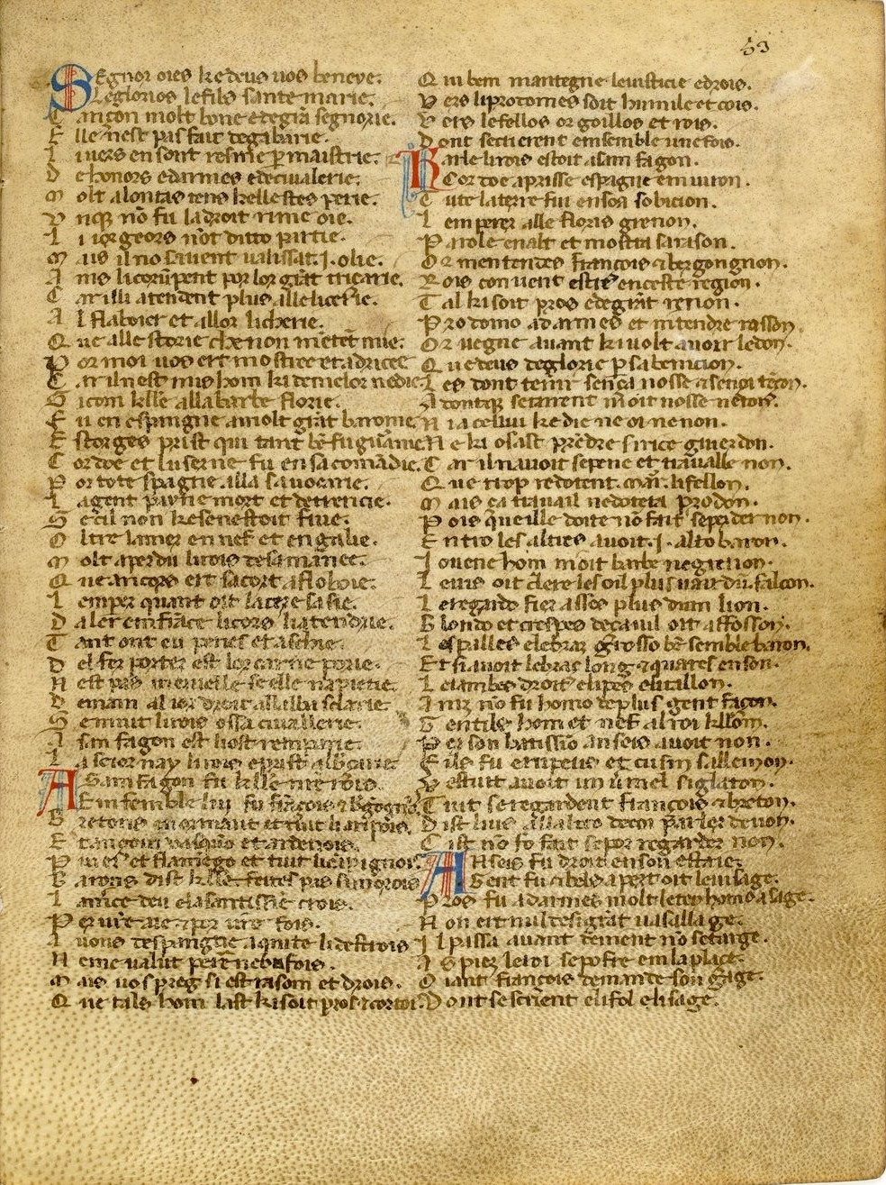 first page of the chanson de geste Anseïs de Carthage, f53r of manuscript fr. 1598, in the Bibliothèque Nationale de France, dated 1230–1250